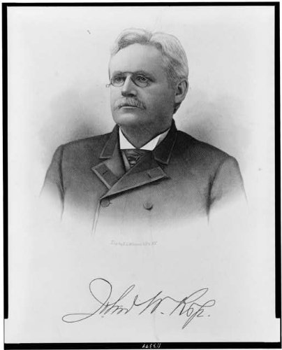 Head and shoulders portrait of John Wesley Ross, engraved by E.G. Williams & Bro., N.Y., from the Library of Congress